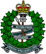 Canadian Intelligence Corps badge